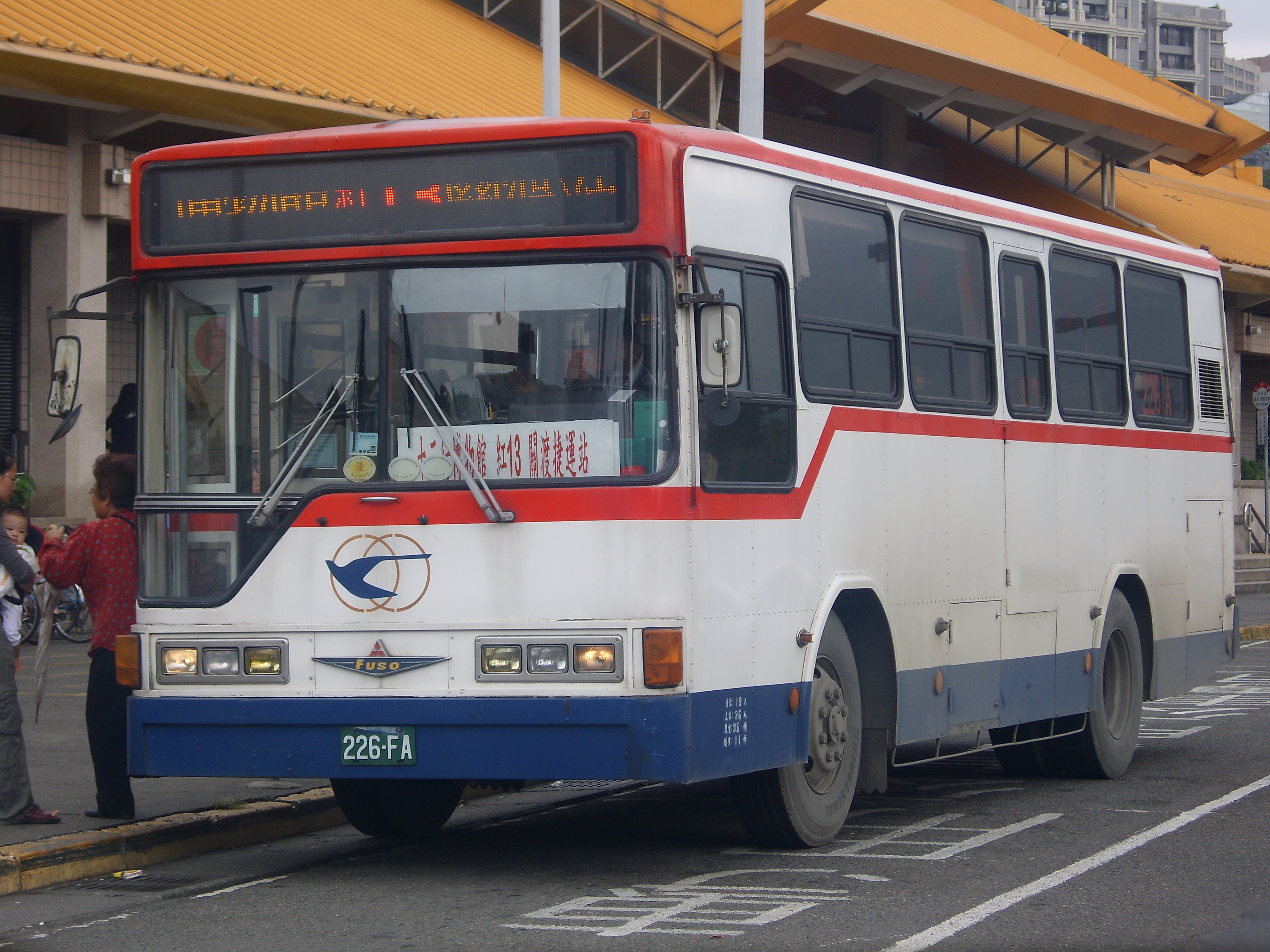 A Fuso RK bus by Tamshui Bus Co., Ltd.